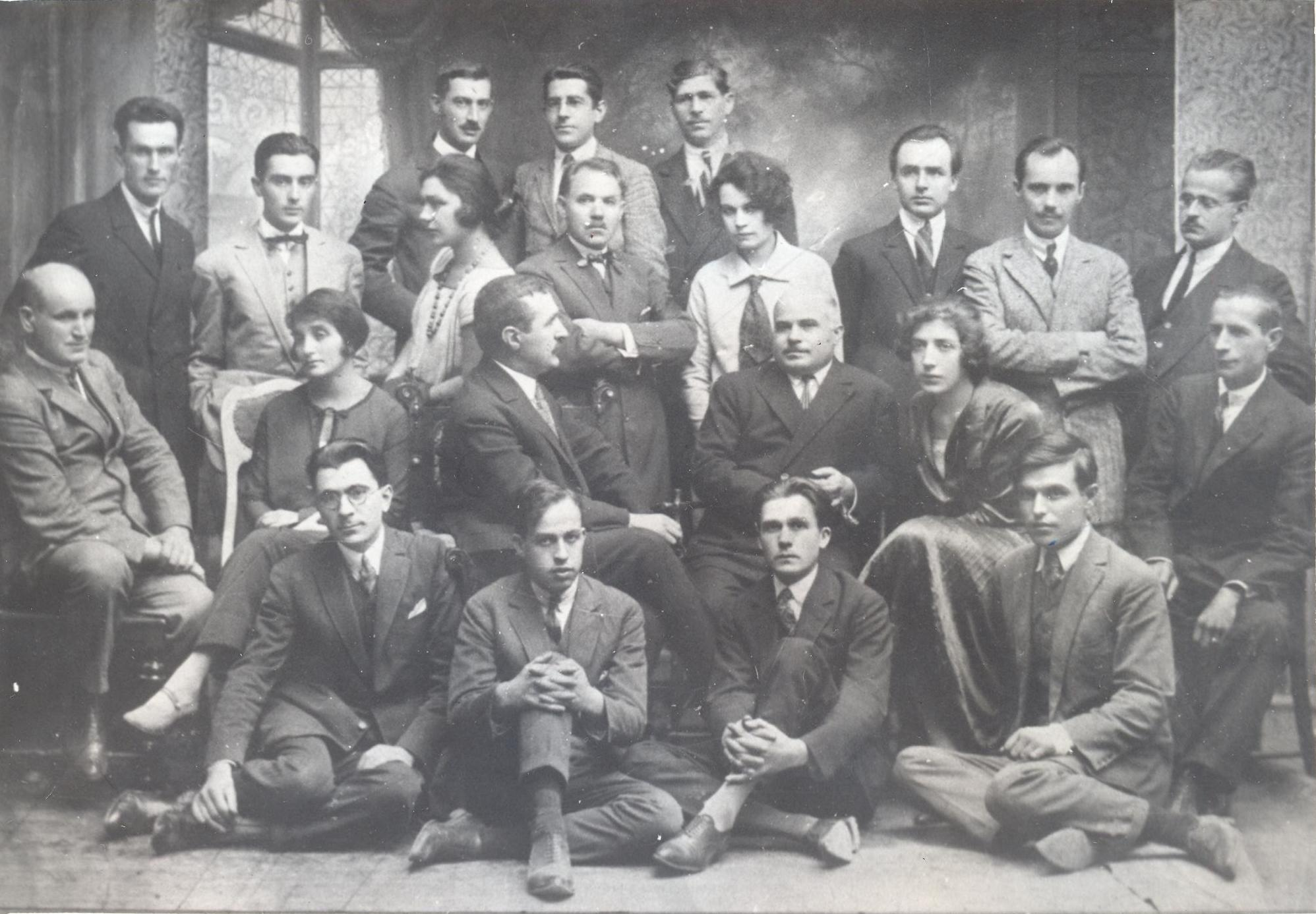 Zlatorog Magazine, 1925-1927.